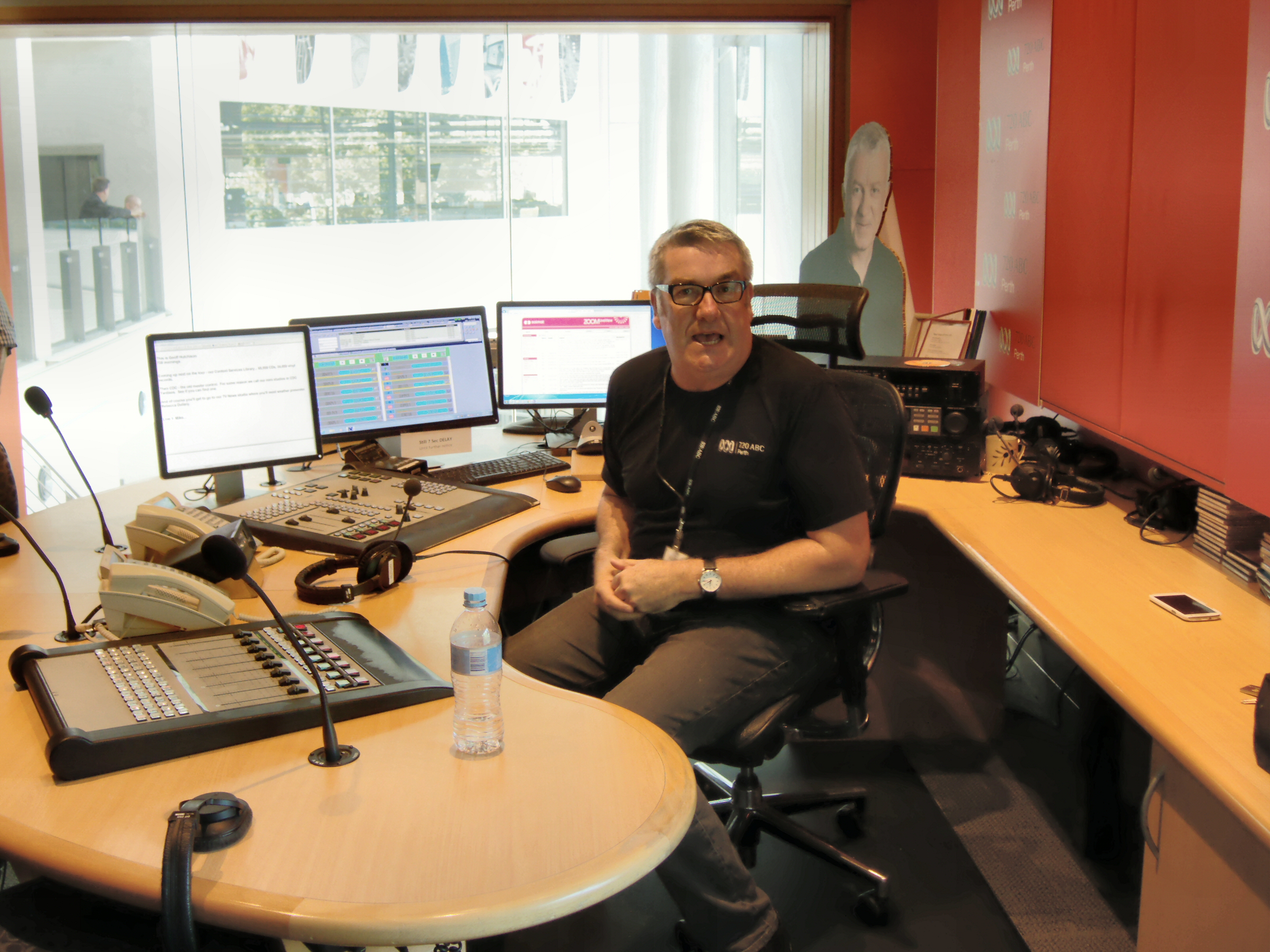 ABC Building Perth (photo taken at Open House Perth 2014 tour): Geoff Hutchison, presenter of the Morning programme, in the 720 ABC Perth radio studio (The Wally Foreman Studio, Radio Studio 600)